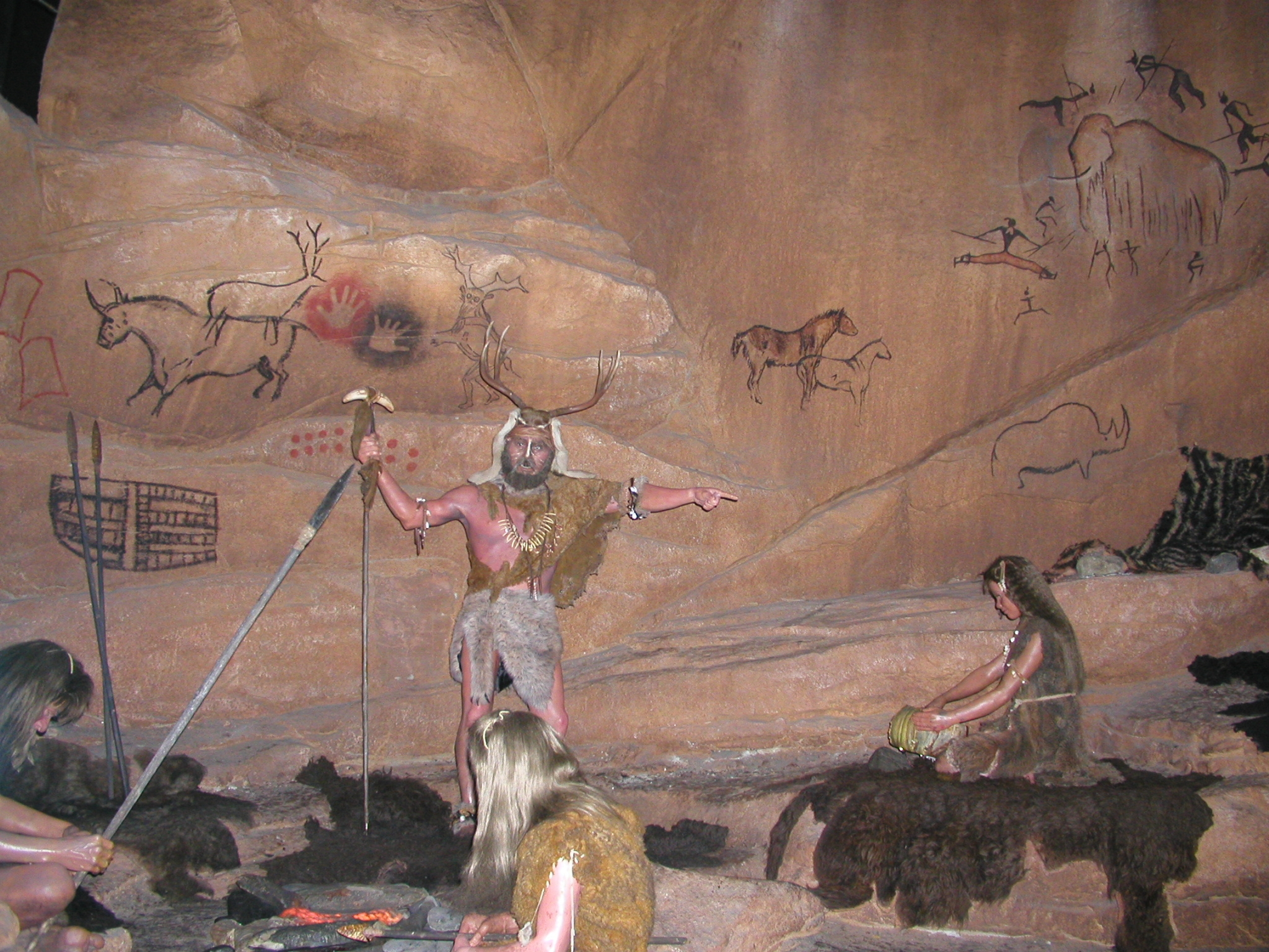 The cavemen scene in the Spaceship Earth ride at Epcot in Walt Disney World.